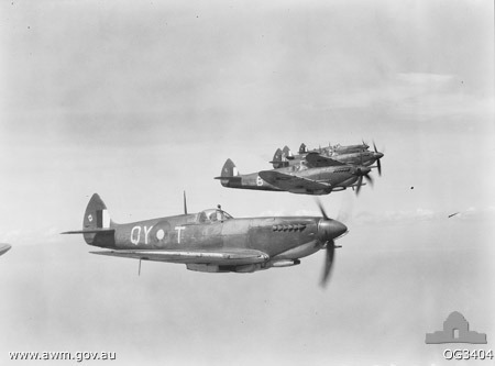 AWM Caption: NEAR MOROTAI ISLAND, HALMAHERA ISLANDS, NETHERLANDS EAST INDIES. 1944-12-30. SIX PILOTS OF THE FAMOUS NO. 452 (SPITFIRE) SQUADRON RAAF WHICH WAS AMONG "THE FEW" IN THE BATTLE OF BRITAIN AND IS NOW SERVING AT MOROTAI IN THE SOUTH-WEST PACIFIC FIND TIME FOR SOME MILD FORMATION PRACTICE DURING AN AFTERNOON HUNT FOR "TARGETS OF OPPORTUNITY" IN THE HALMAHERAS AREA. THE LEADER IS 408970 LIEUTENANT L. S. COMPTON OF CAULFIELD, VIC, IN CAMOUFLAGED MARK VIII (C) AIRCRAFT CODED QY-T.